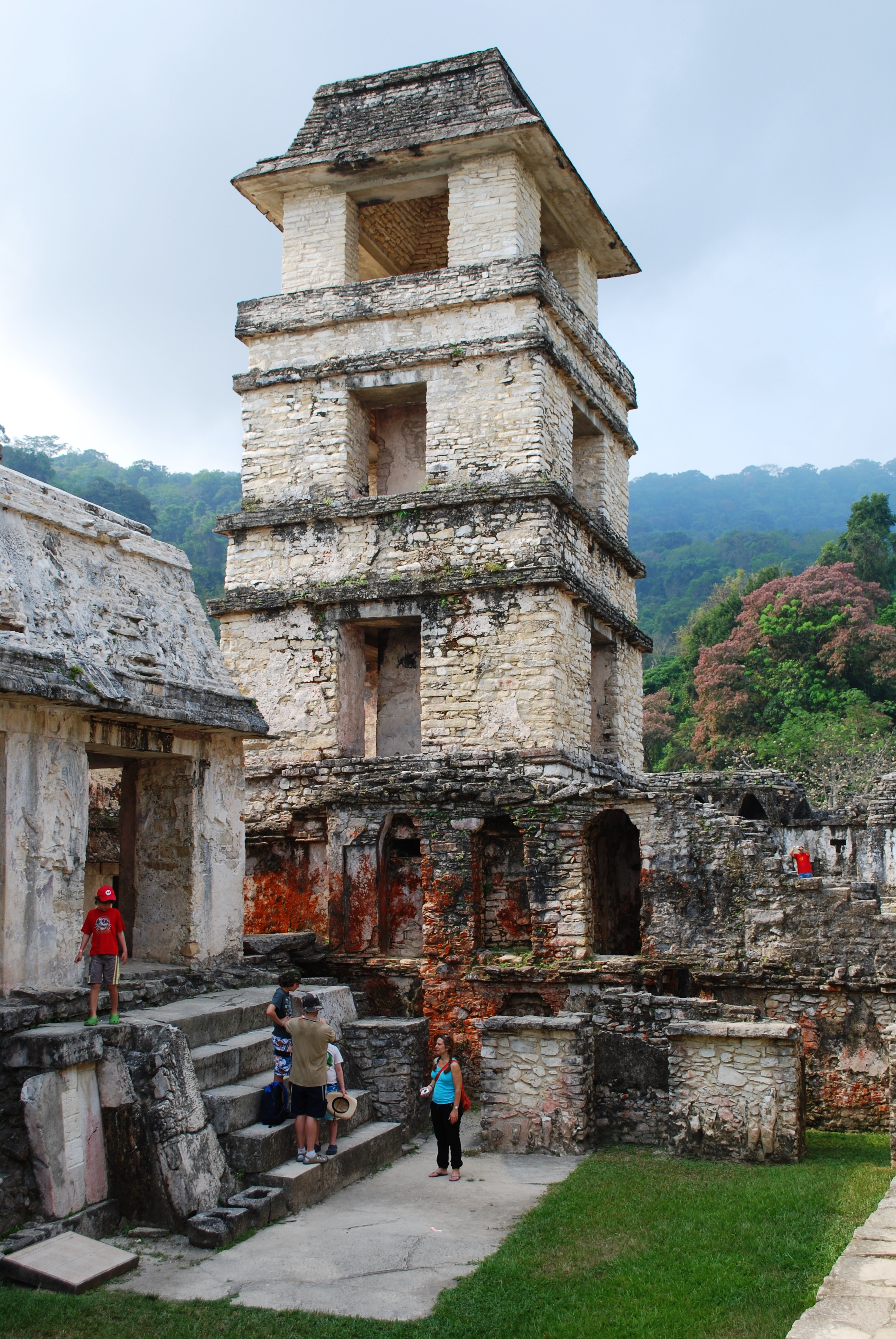 View of the tower at the Palace at Palenque, Chiapas, Mexico